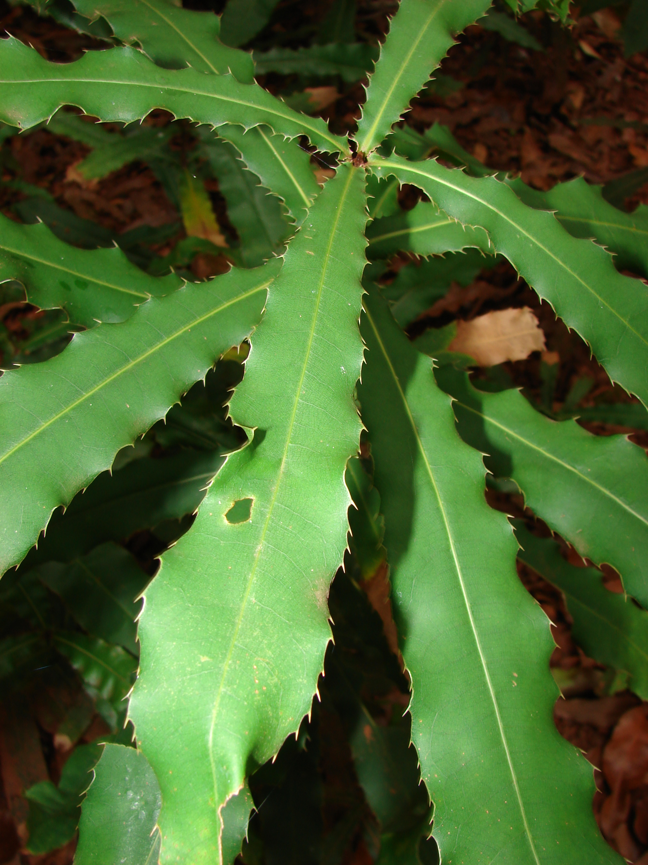 Macadamia integrifolia (leaves). Location: Maui, MISC HQ Piiholo